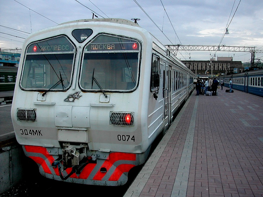 Domodedovo Express before departure from Pavletsky Rail Terminal in Moscow. August 31, 2005.